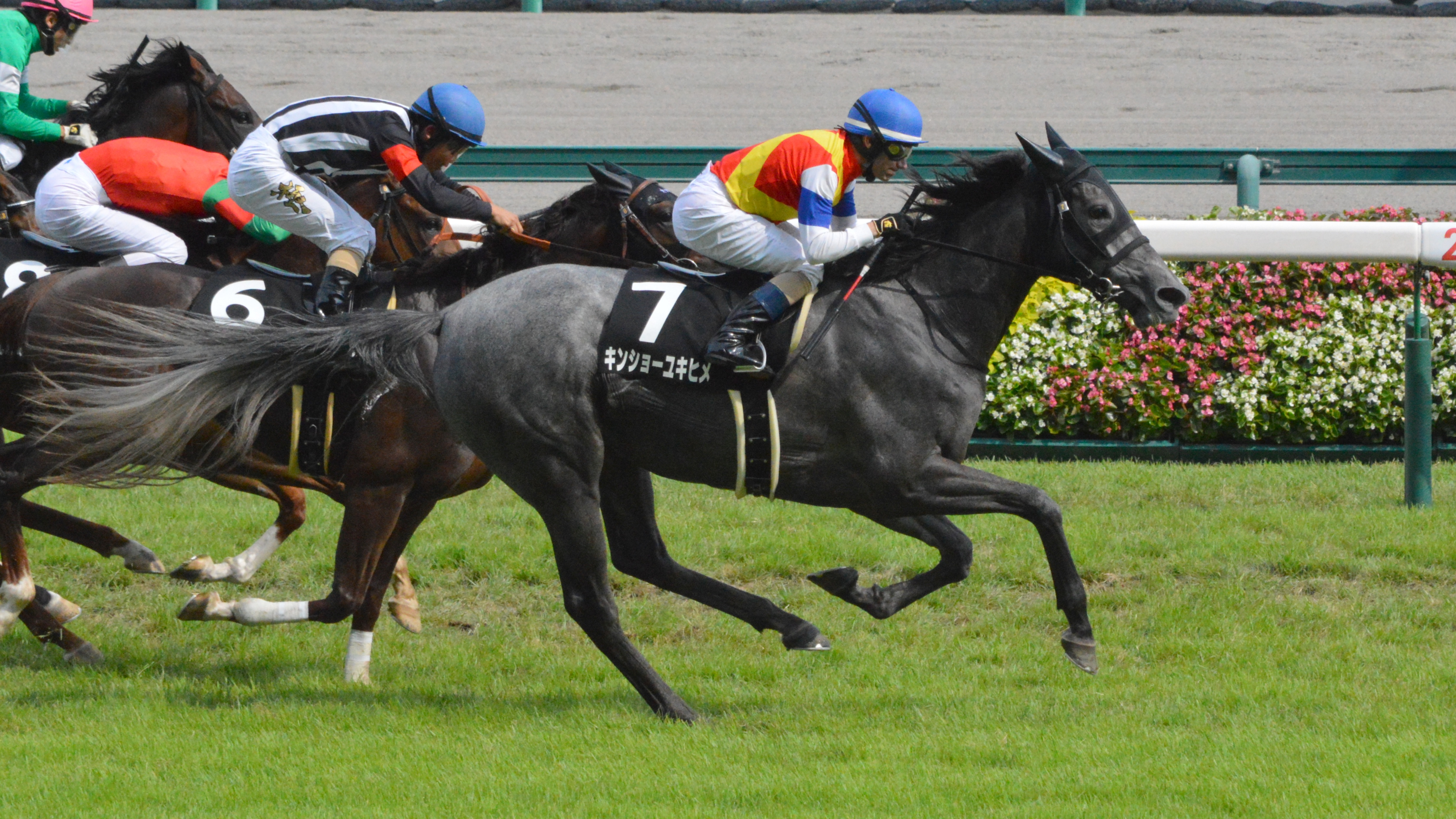 Japanese race horse Kinsho Yukihime at Chukyo racecourse.